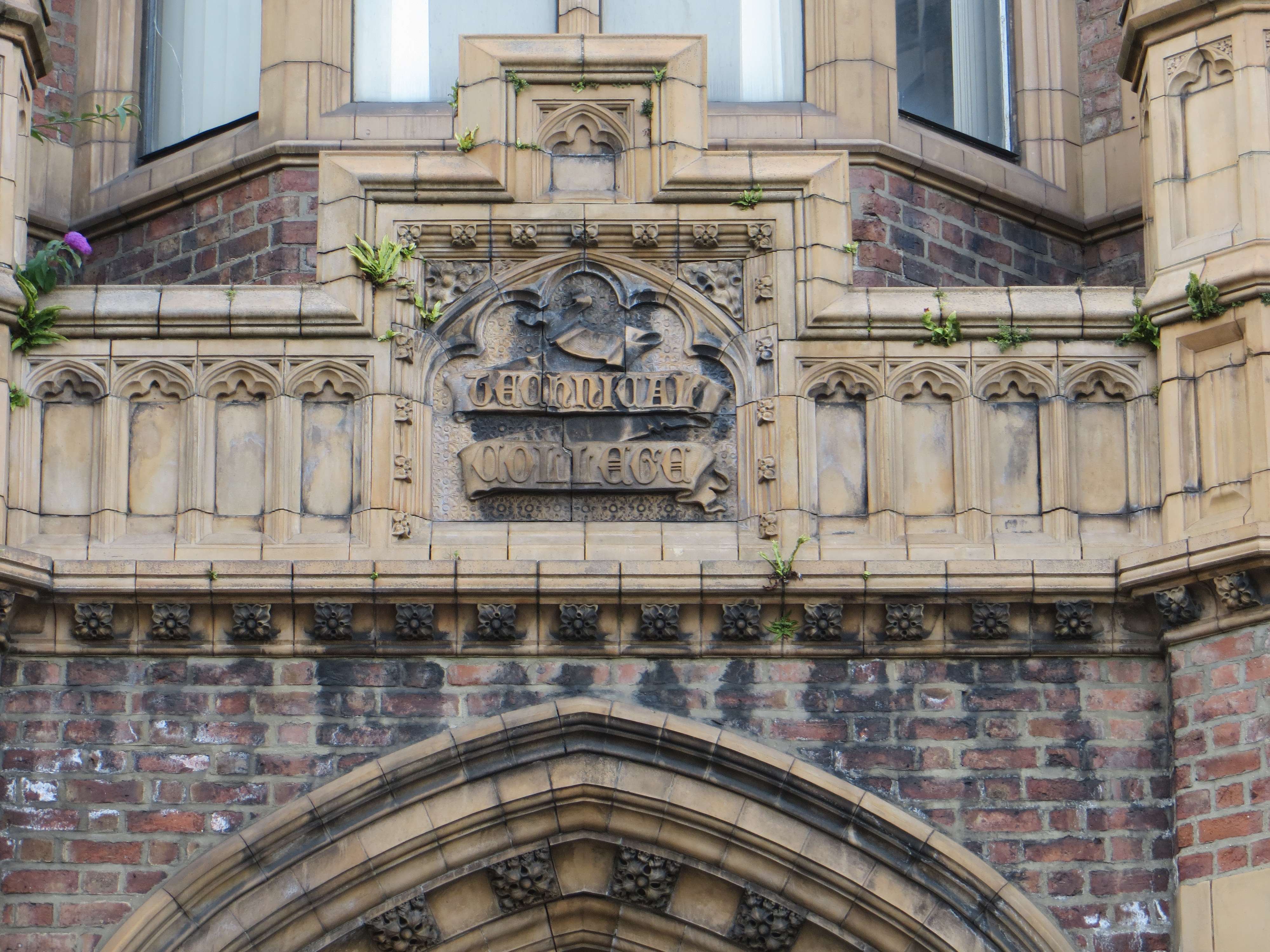 Previous building, in use as council offices in 2014